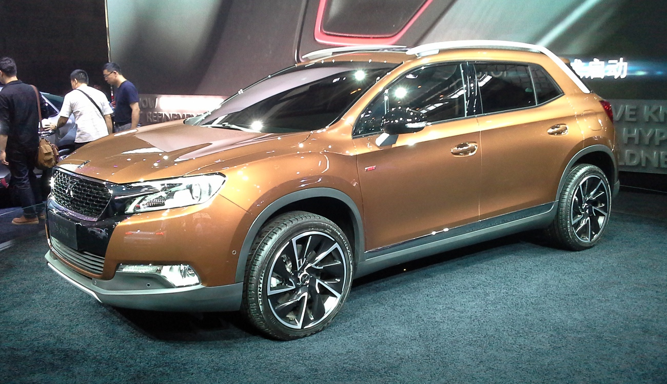 DS 6WR photographed at the Auto China 2014, Beijing, China.